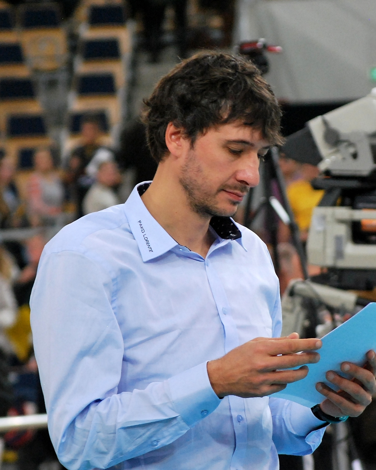 Miguel Falasca, volleyball coach from Argentina